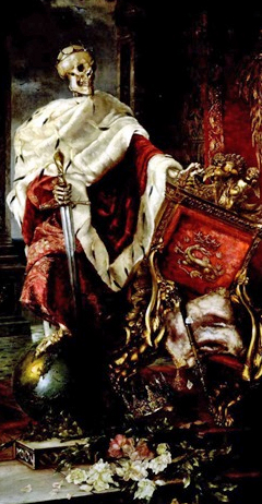 Hermione von Preuschen - Death emperor, 1887